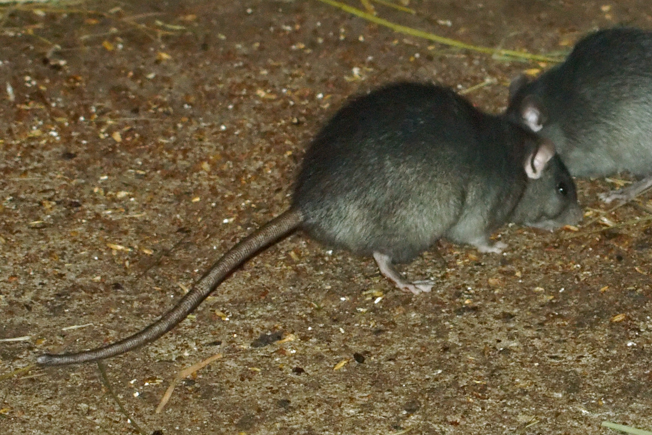 A Black Rat or Roof Rat (Rattus rattus), photographed in the Hagenbeck zoo in Hamburg, Germany.